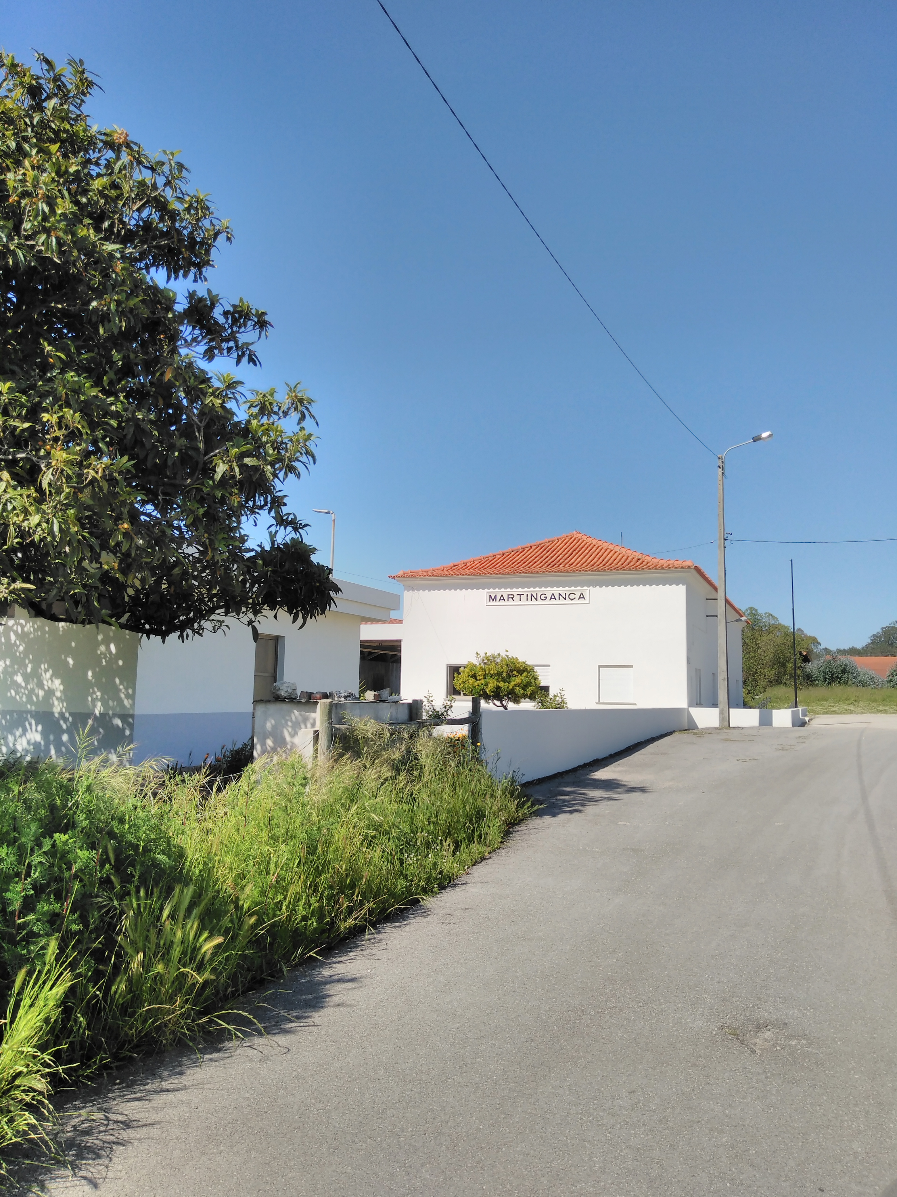 Martingança train station on Linha do Oeste (Western Railway), Portugal